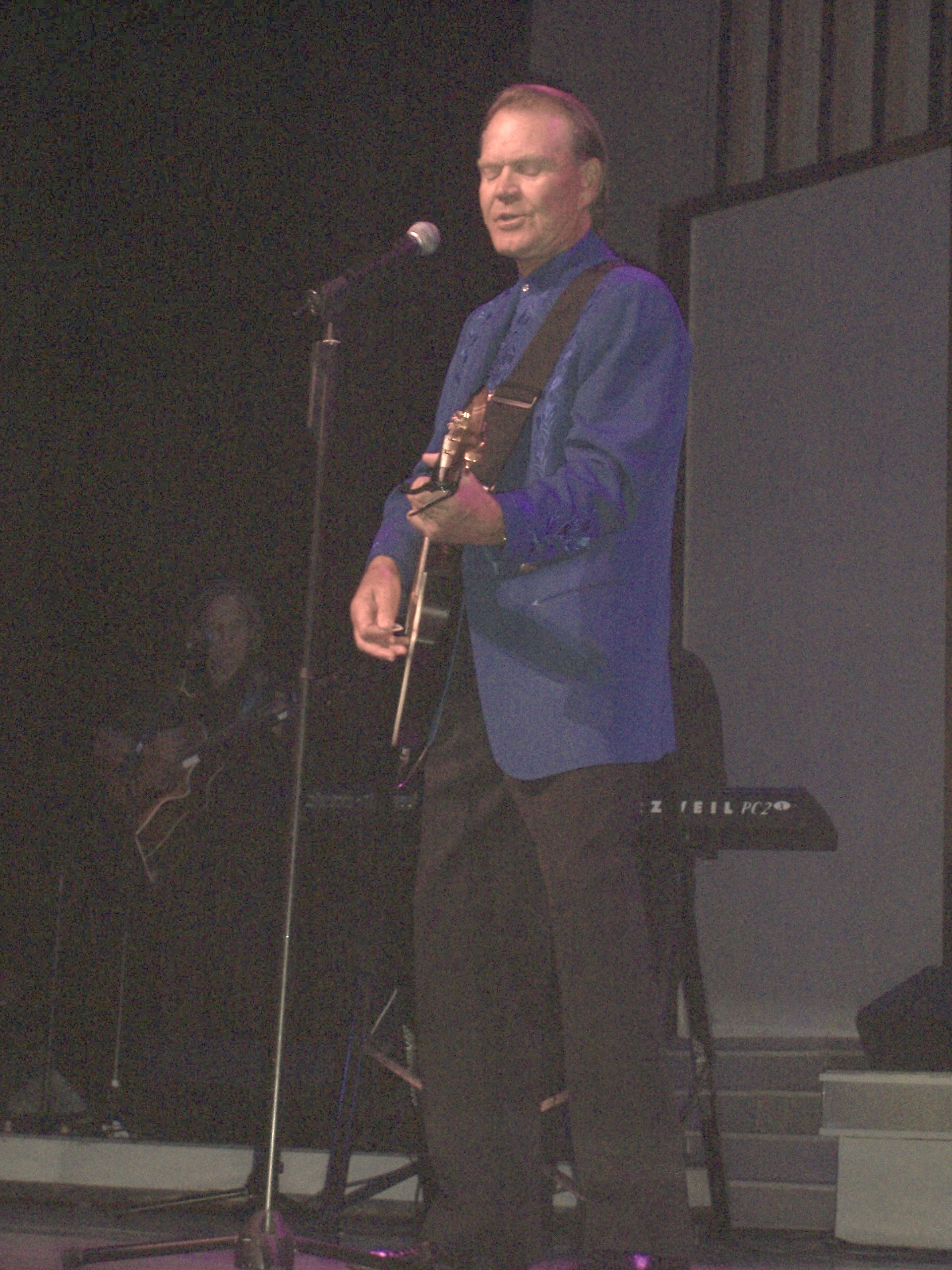 Glen Campbell in Branson, Missouri